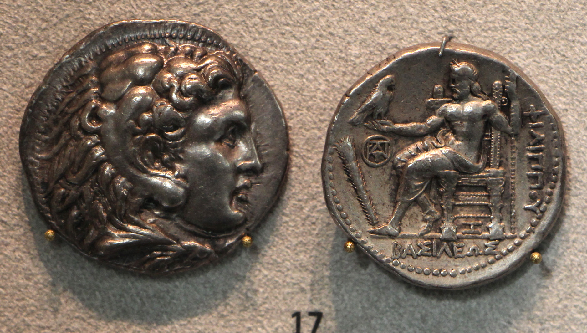 Ancient Greek coins in the Altes Museum Berlin